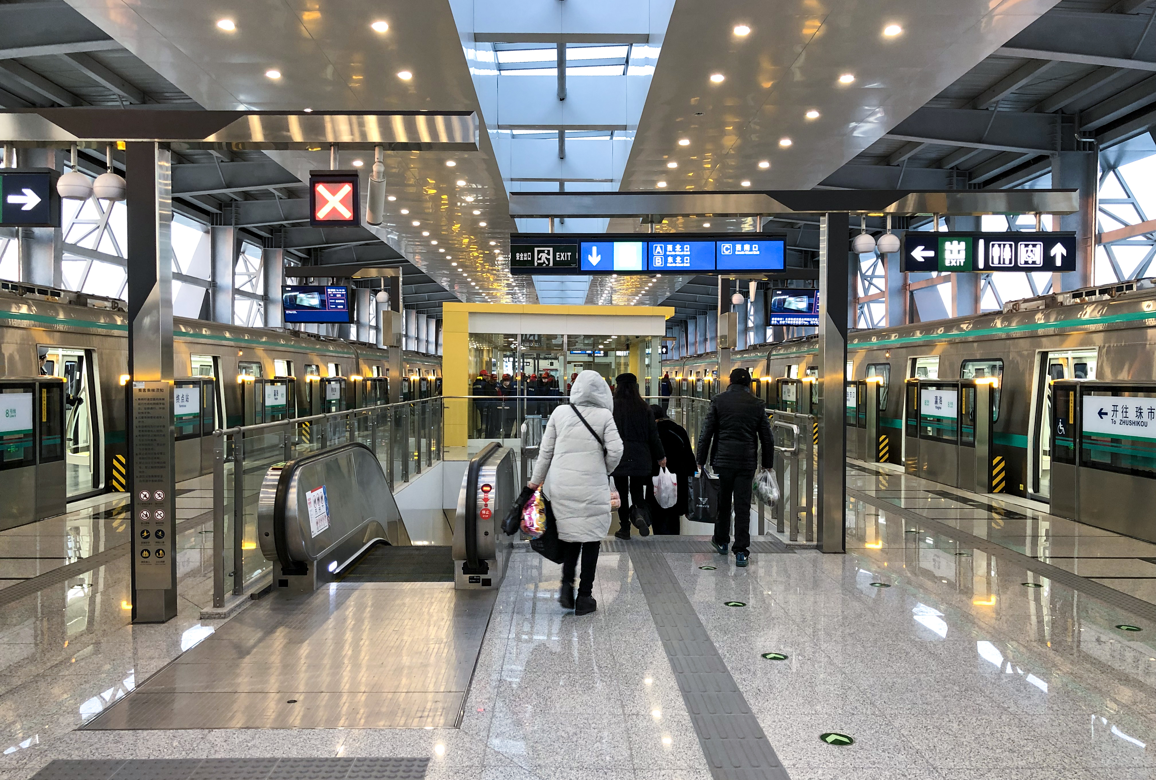 Now, how far is the information highway from us?